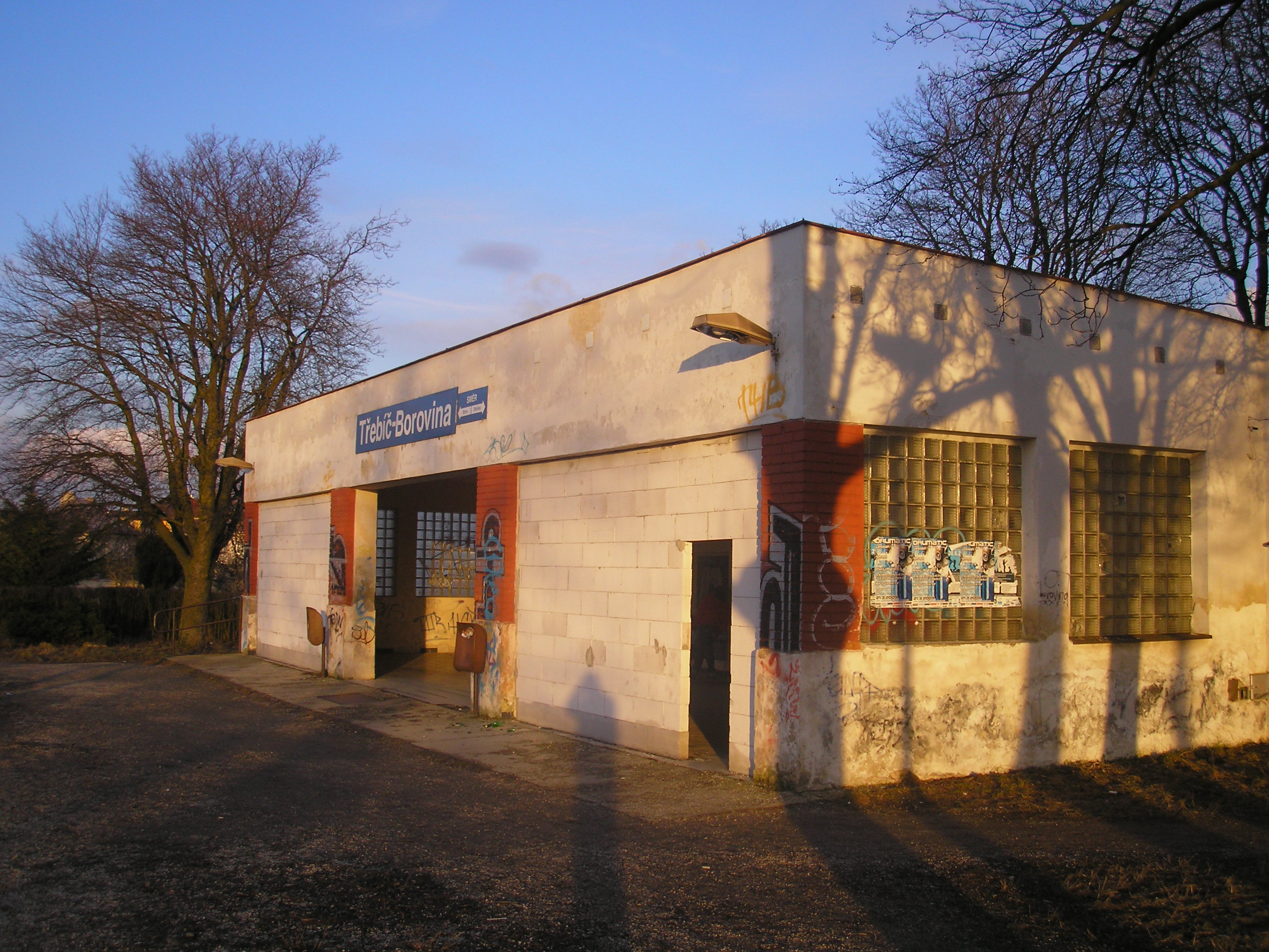 Třebíč-Borovina. Railway stop „Třebíč-Borovina“, railway line 240, year 2009.